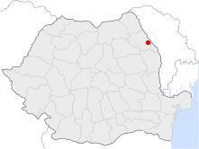 Location of Iași in Romania.